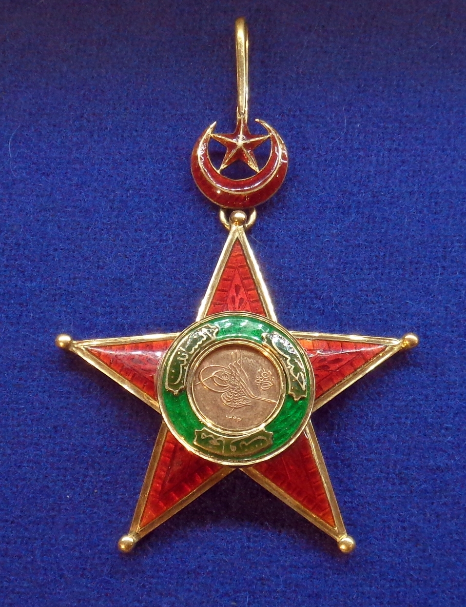 Order of Charity 1st class, badge, c.1900. Ottoman Empire. The exhibition of the Tallinn Museum of Orders of Knighthood, Estonia.